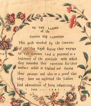 Detailed from the Rajah Quilt - Ladies Society. The Rajah Quilt was created by convict women on board the ship Rajah in 1841. It was given to the governors wife and is now in a museum in Australia. It is part of the National Gallery of Australia’s Australian textiles collection